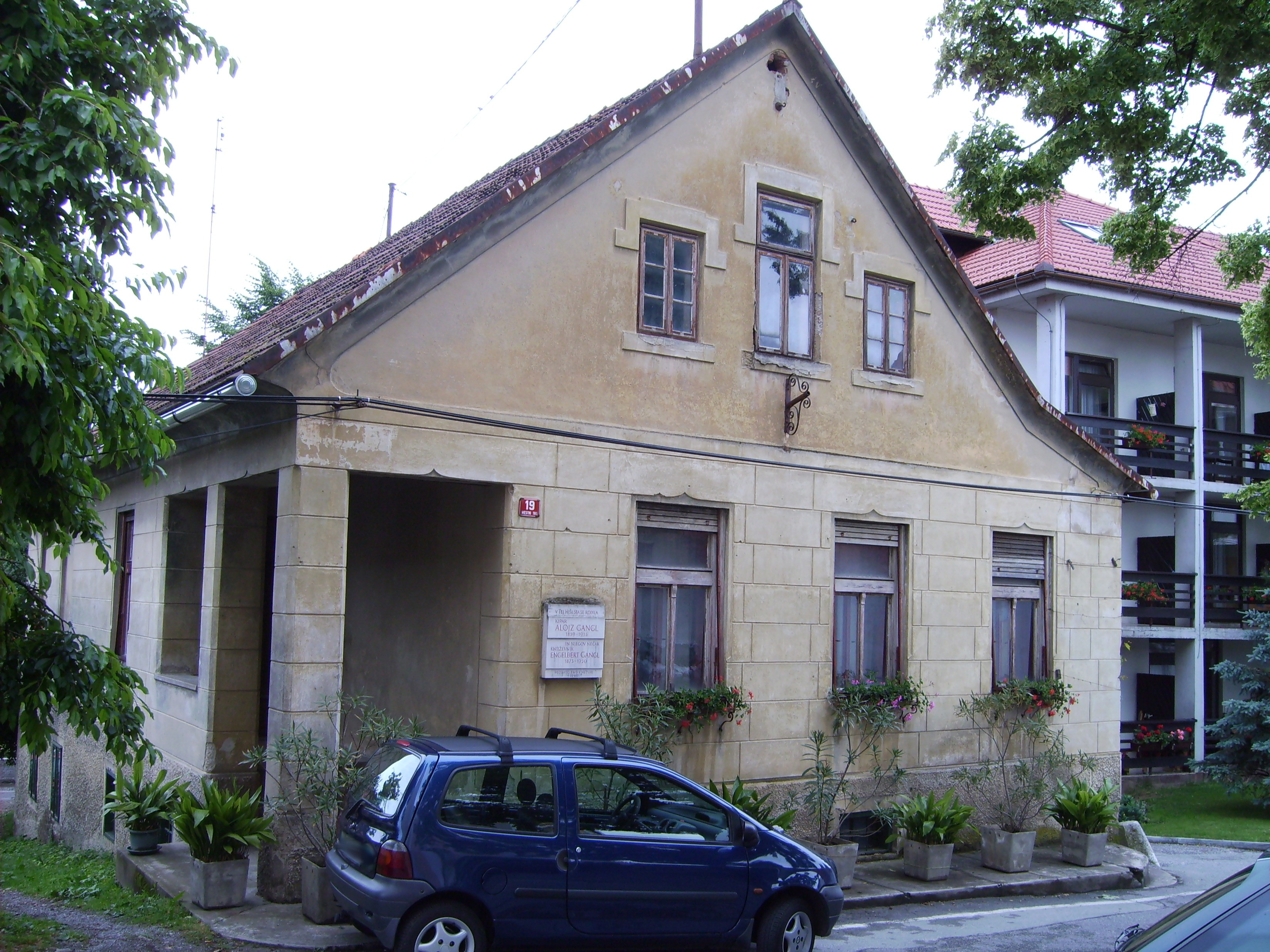 Birthplace of Alojz and Engelbert Gangl in Metlika (Bela krajina region/Slovenia)